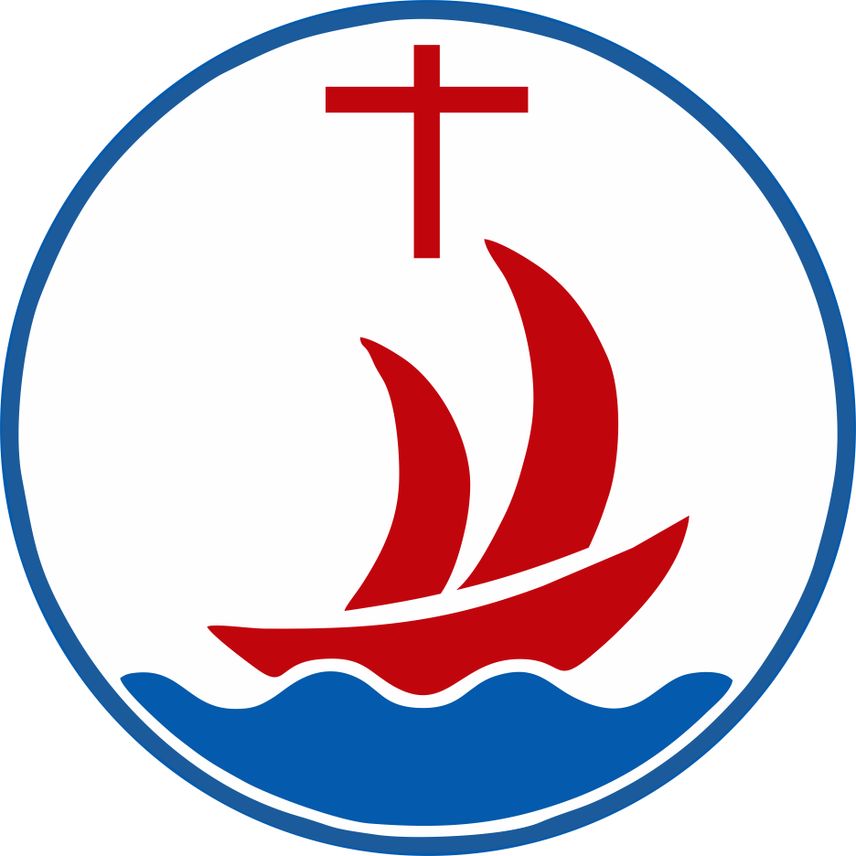 The Logo of the Catholic Bishops' Conference of Vietnam